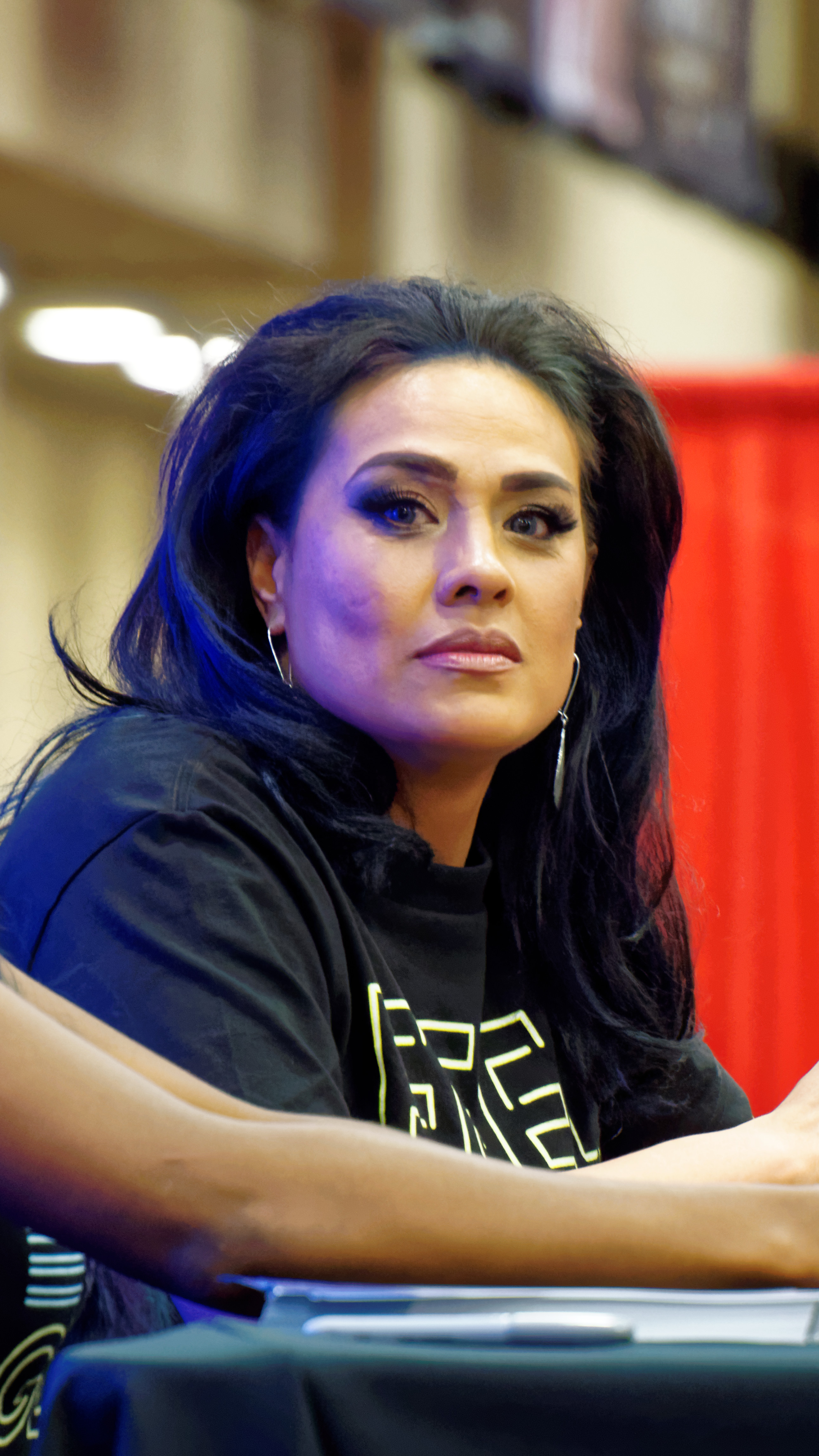 Tamina Snuka at WrestleMania Axxess: WrestleMania Axxess takes over the Kay Bailey Hutchison Convention Center in Dallas March 31-April 3. Featuring Superstar and Diva meet-and-greets, memorabilia displays and much more, WrestleMania Axxess is one event WWE fans of all ages will want to be part of. Don't miss out!